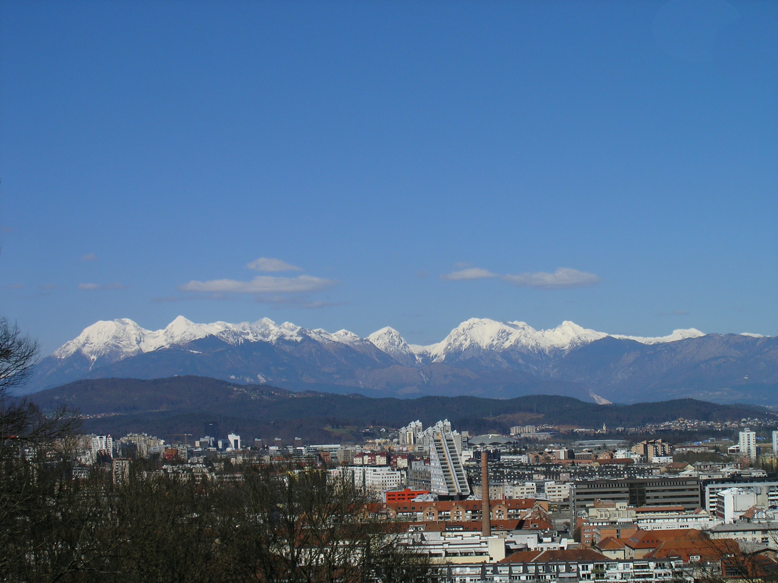 Karavanke as seen from Ljubljana.